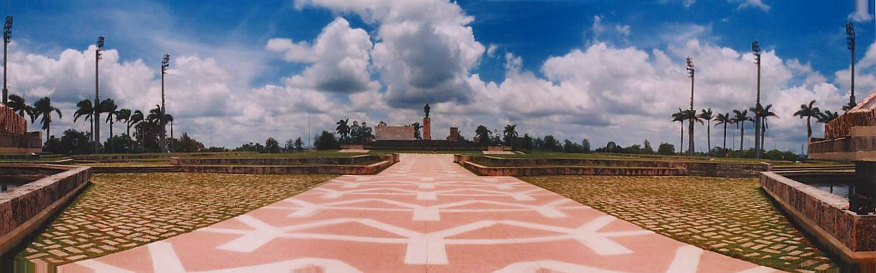 Mausoleum of Che Guevara in Santa Clara, Cuba